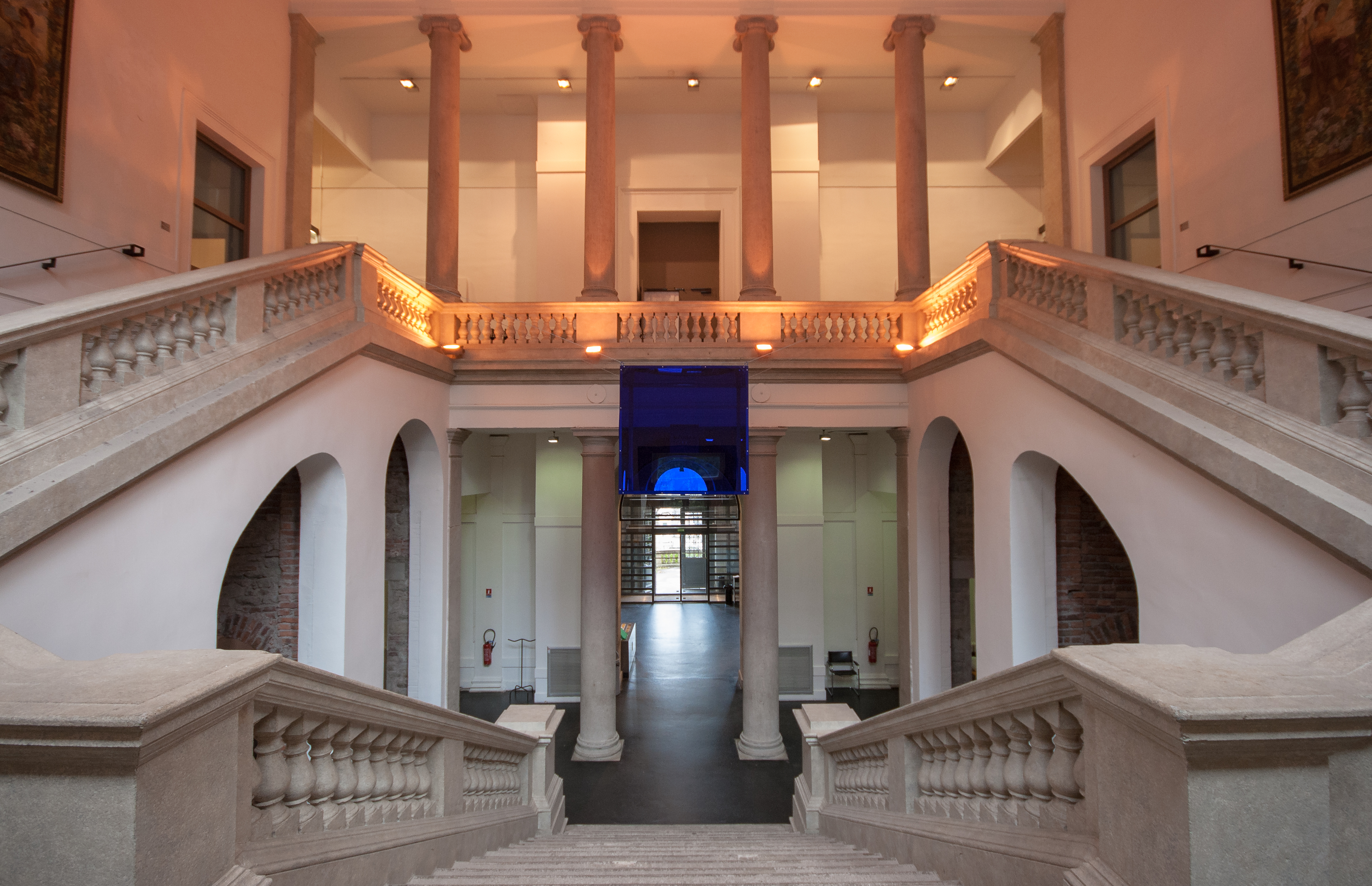 Saint-Étienne, Museum of Art and Industry. Main staircase.